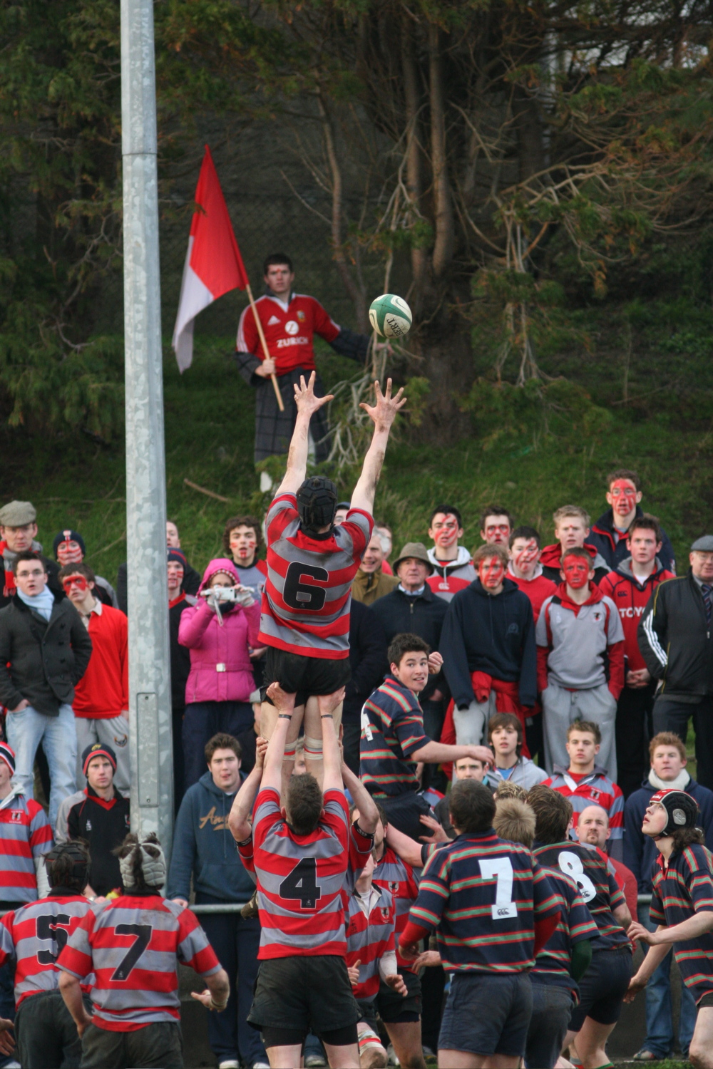 Glenstal Abbey School seniors vs. Newtown seniors